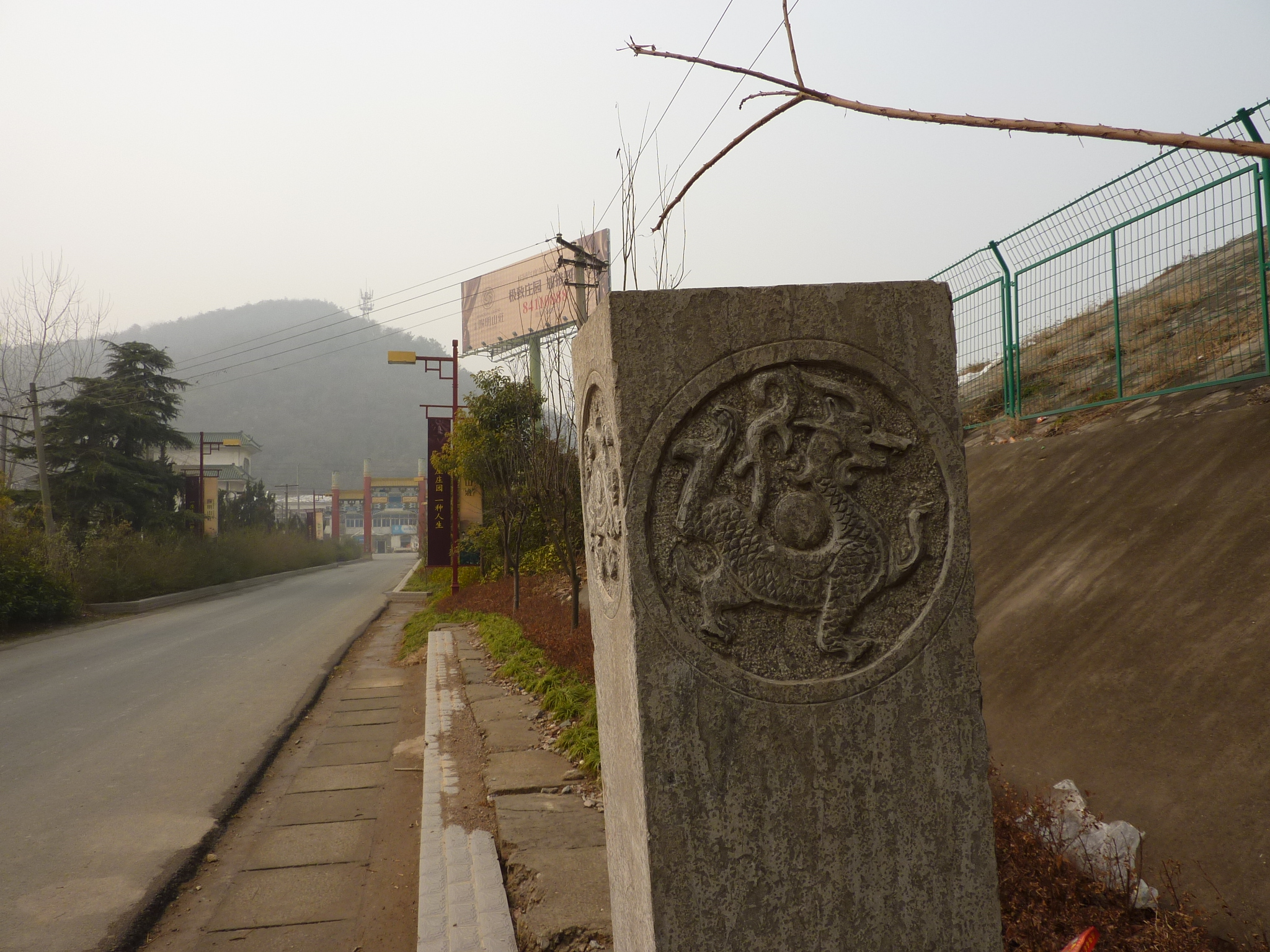 A marker on the branch road off Hwy S122, going to the Yangshan Quarry (and the nearby upscale housing developments), a few hundred meters from the quarry itself.